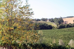 Alexander Valley - Sonoma County